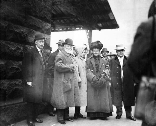 Mr. and Mrs. Andrew Carnegie (Louise Whitfield Carnegie) and Margaret Carnegie standing outside a building in Chicago, Illinois.